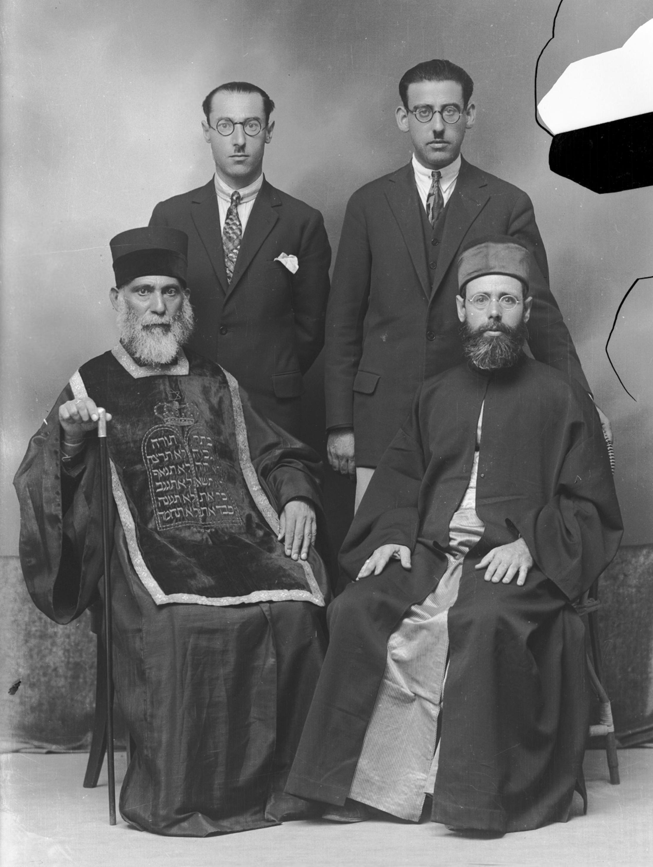 Rabbis and members of the Romaniote Greek Jewish Community of Volos, Greece.